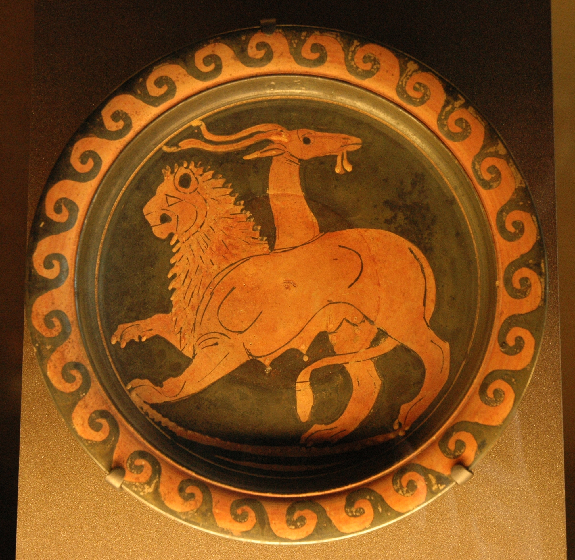 Chimera. Apulian red-figure dish, ca. 350-340 BC.